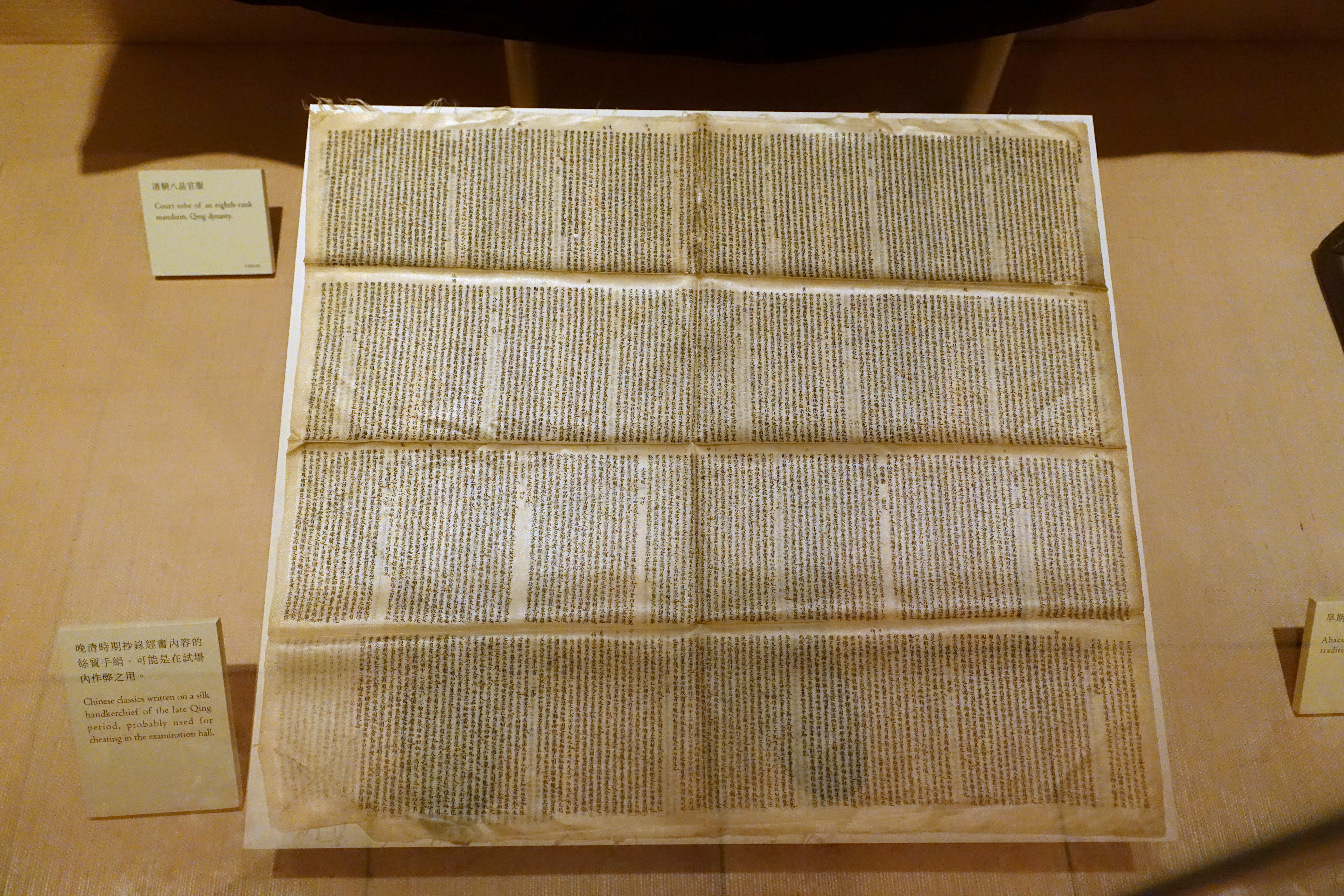 Exhibit in the Hong Kong Museum of History, Hong Kong.